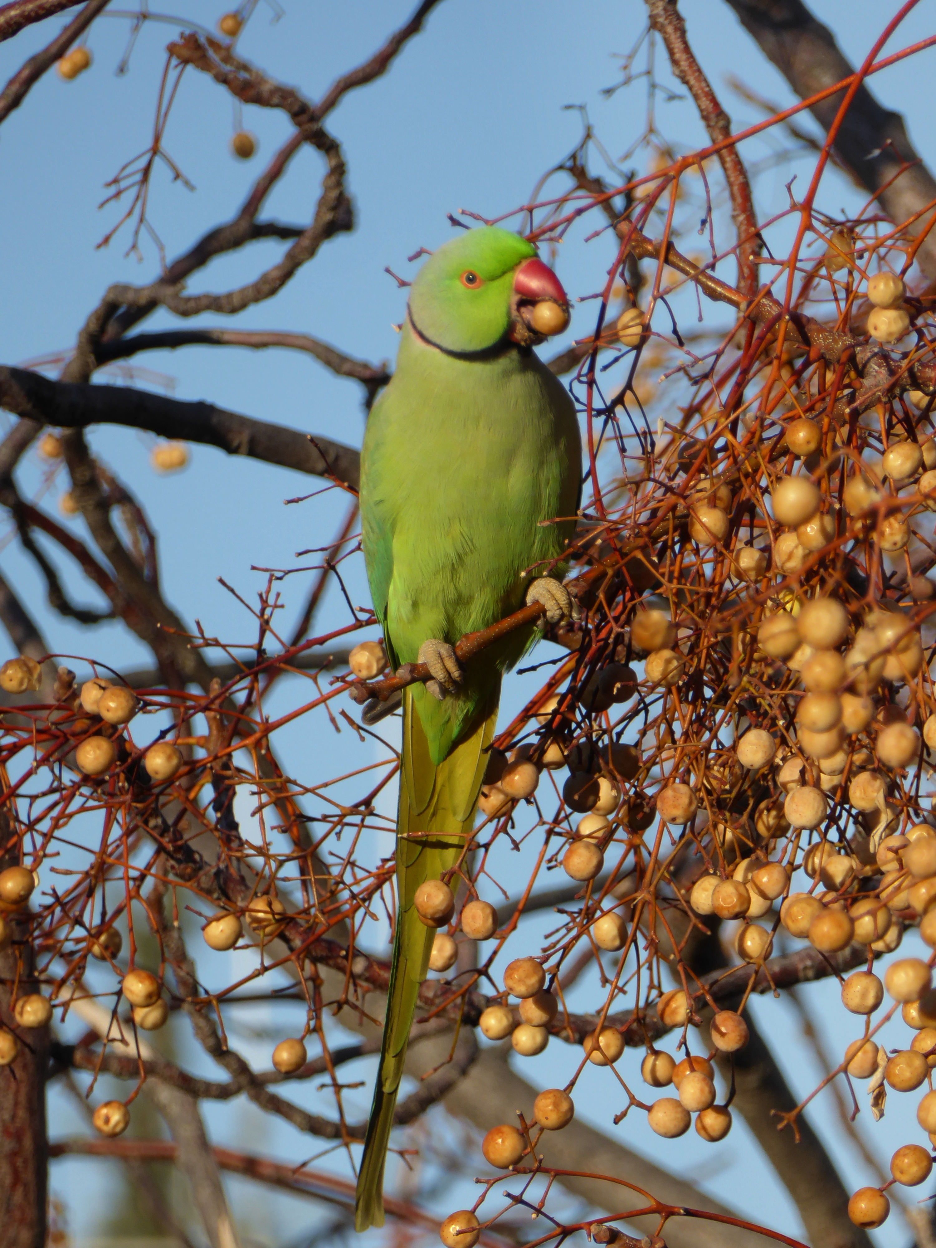 Animals of Israel